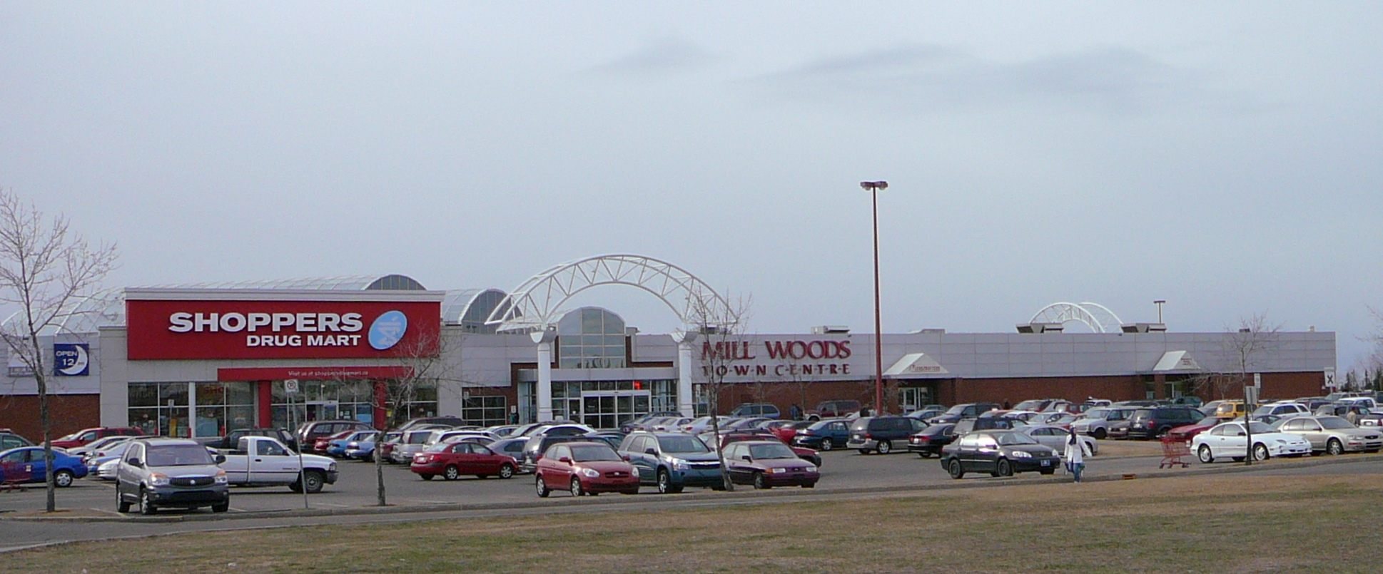 The Mill Woods Towne Centre mall in Edmonton, Canada